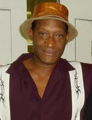 American actor Tony Todd at the 2003 Motor City Comic Con.